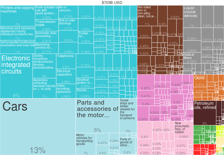 2014 Japan Products Export Treemap Updated Japan export treemap with 2014 trade data